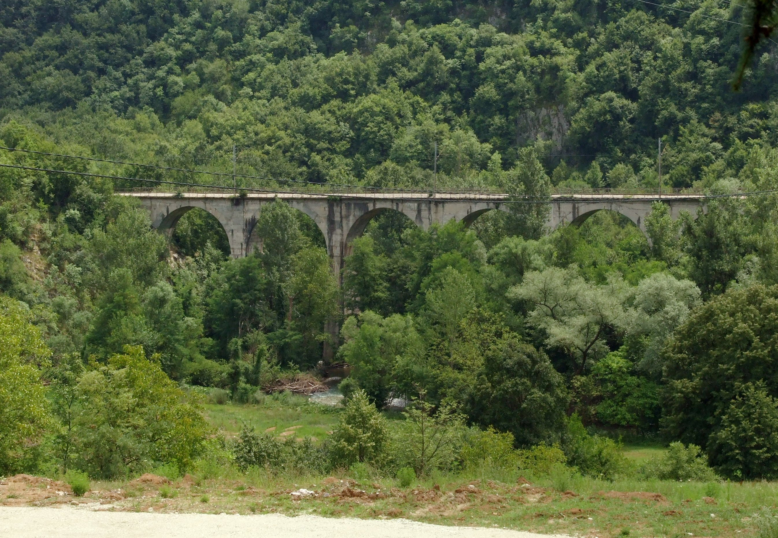 Rail bridge of Belgrade-Bar train track near Ćelije monastery, Kolubara District, Serbia